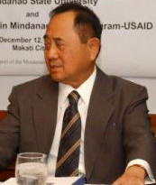 Cropped picture of speaker JDV from the U.S embassy